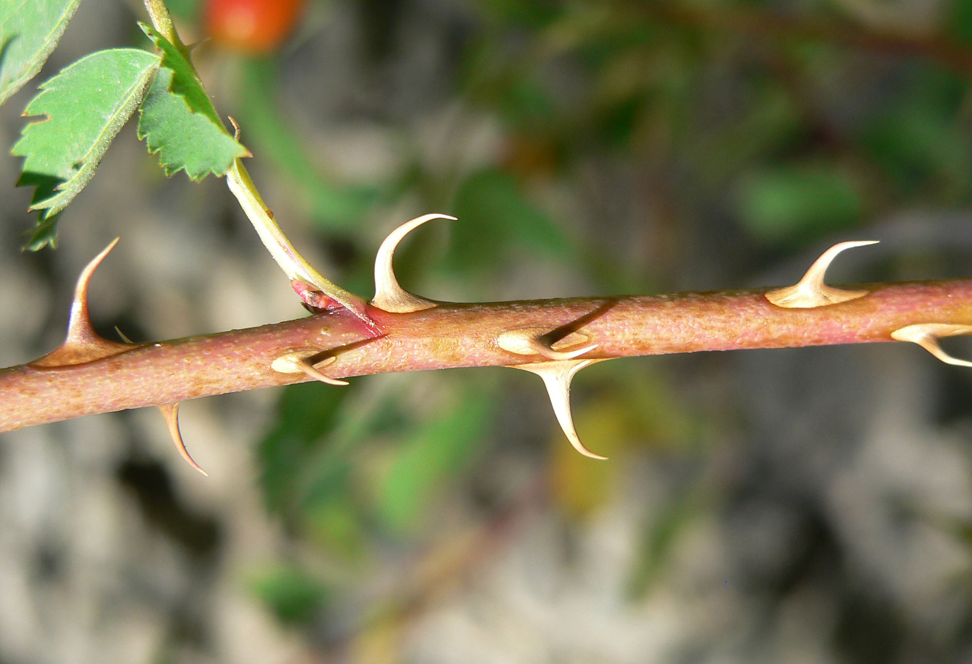 Rosa woodsii in Mount Charleston just below where Kyle Canyon Road crosses over the wash, Kyle Canyon, Spring Mountains, southern Nevada (elev. about 2300 m)